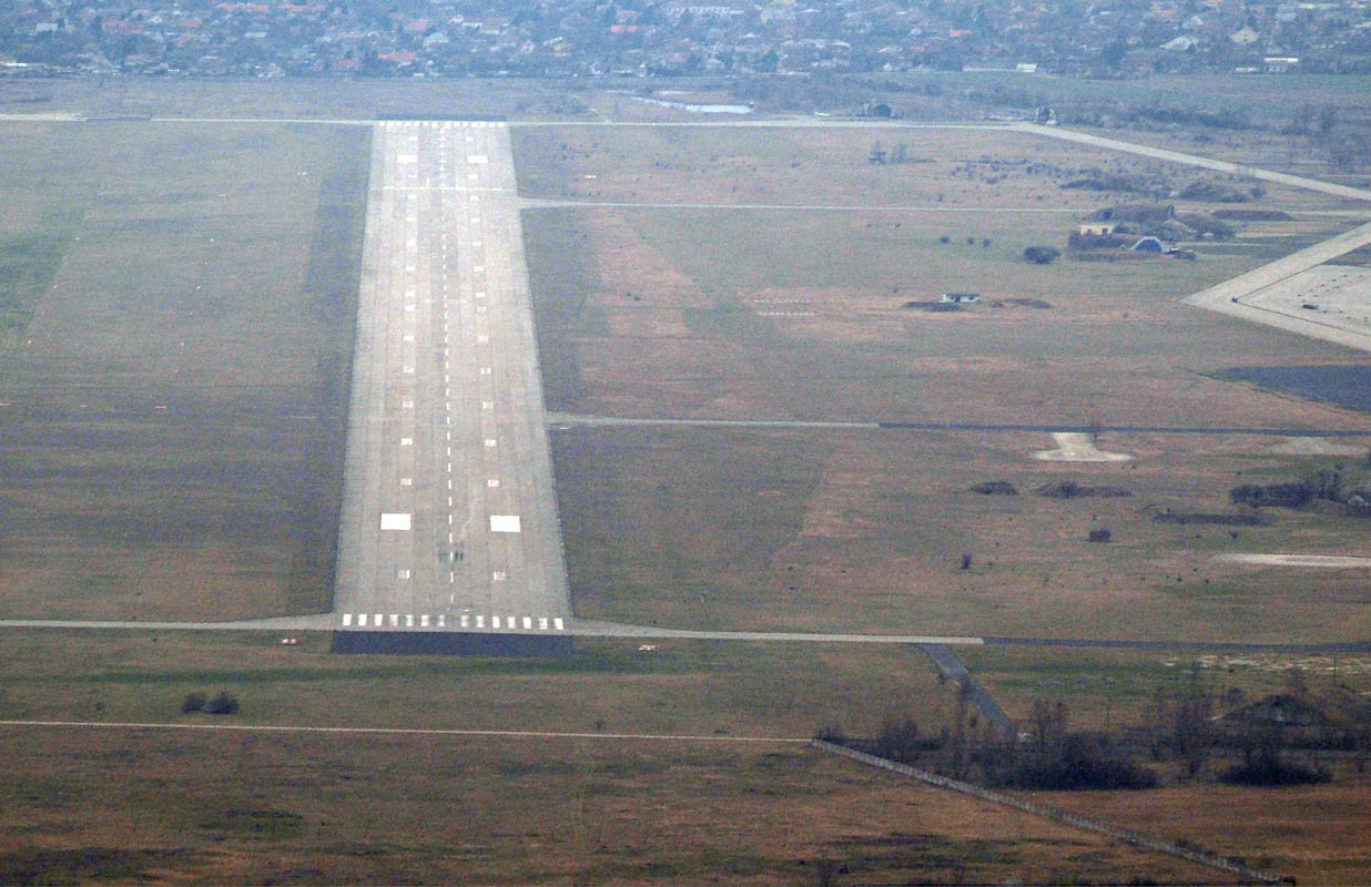 Tököl, Hungary, airport, aerial photography